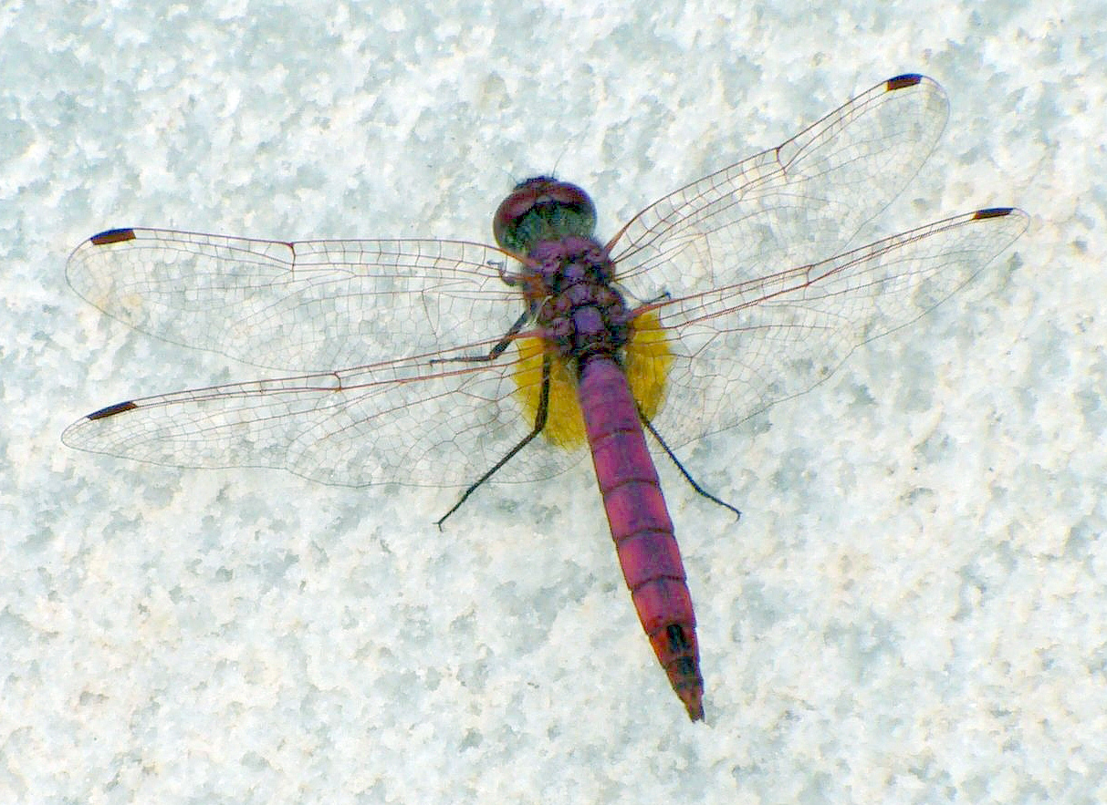 Trithemis annulata own picture